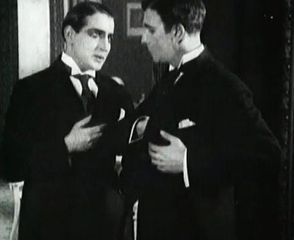 Osip Runitsch,Vitold Polonsky